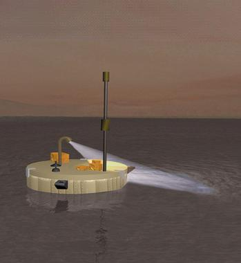 The Titan Mare Explorer (TiME) probe as envisioned for the Titan Saturn System Mission (TSSM) slated for launch in 2020 and bound for a splash down on Titan around 2030 in Ligeia Mare (the backup target is lake Kraken Mare).